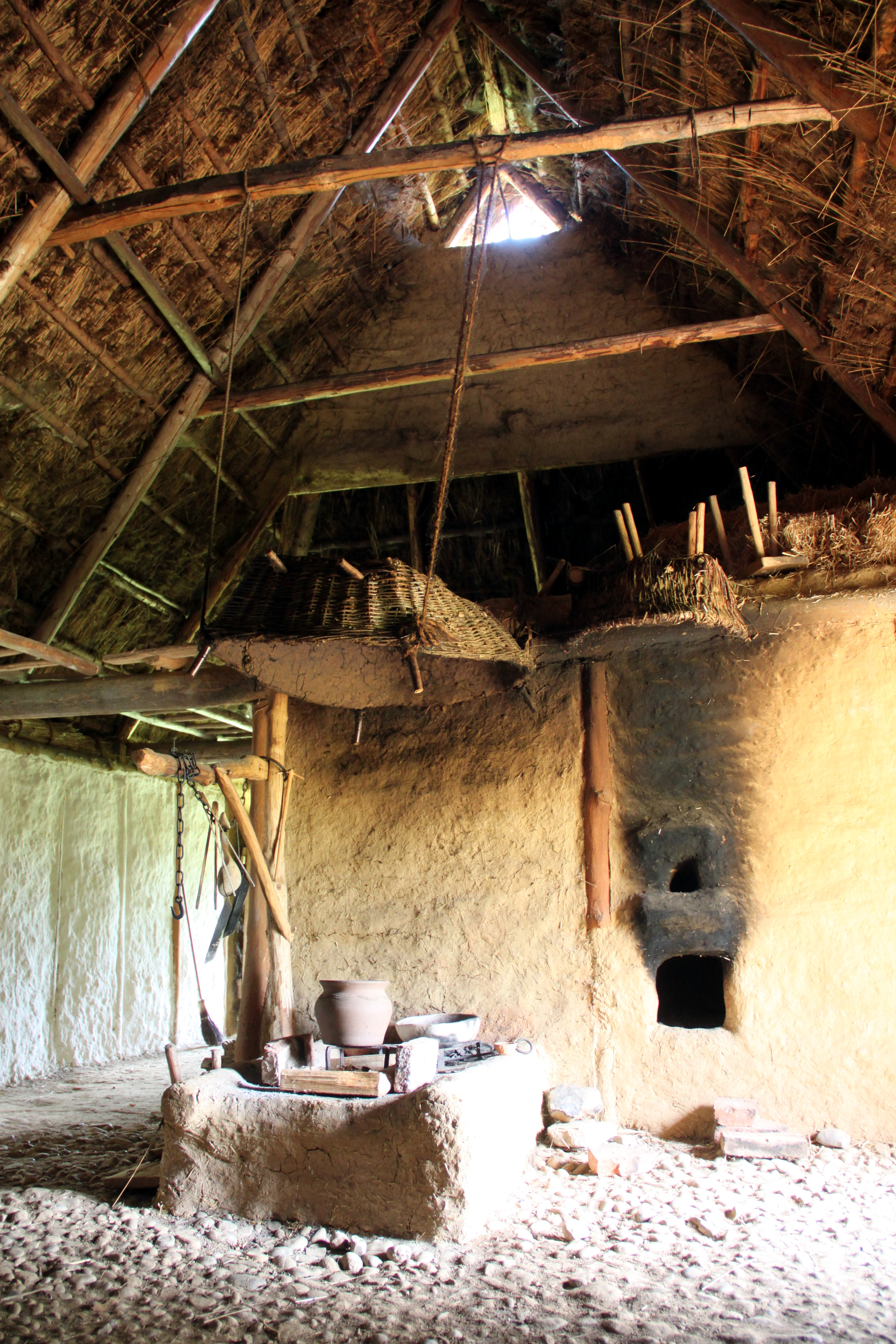 Bajuwarenhof Kirchheim: fireplace in the longhouse.